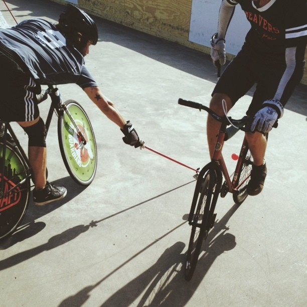 Bike Polo: Beavers vs Guardians, NAHBPC 2013 in Minneapolis, MN.